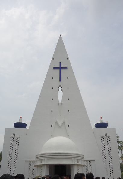 Front view